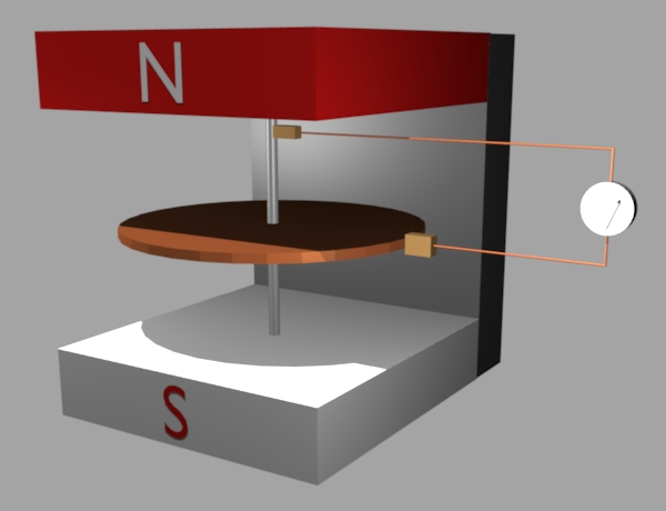 Cartoonish rendering of a Faraday disc. Drawn using Blender. --Heron2 15:18, 19 August 2006 (UTC)